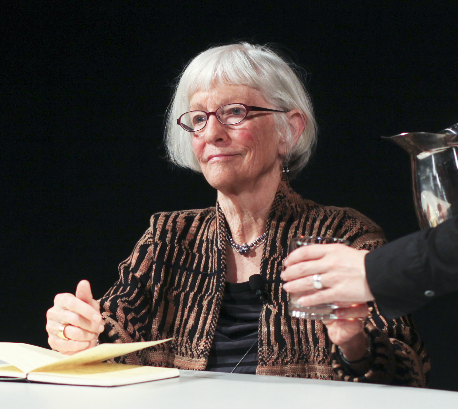 Yvonne Rainer and Joan Jonas and Ute